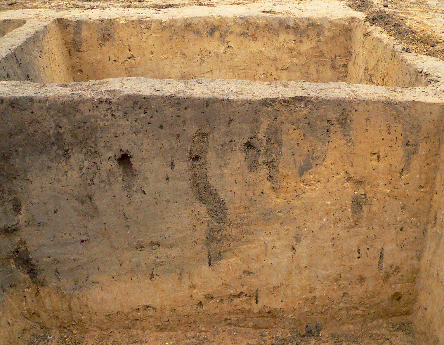 Krotovinas in loess subsoil (partly anthropogenically altered by cesspit deposits) of a Chernozem, cut in an archeological excavation site near Hildesheim, Lower Saxony, Germany